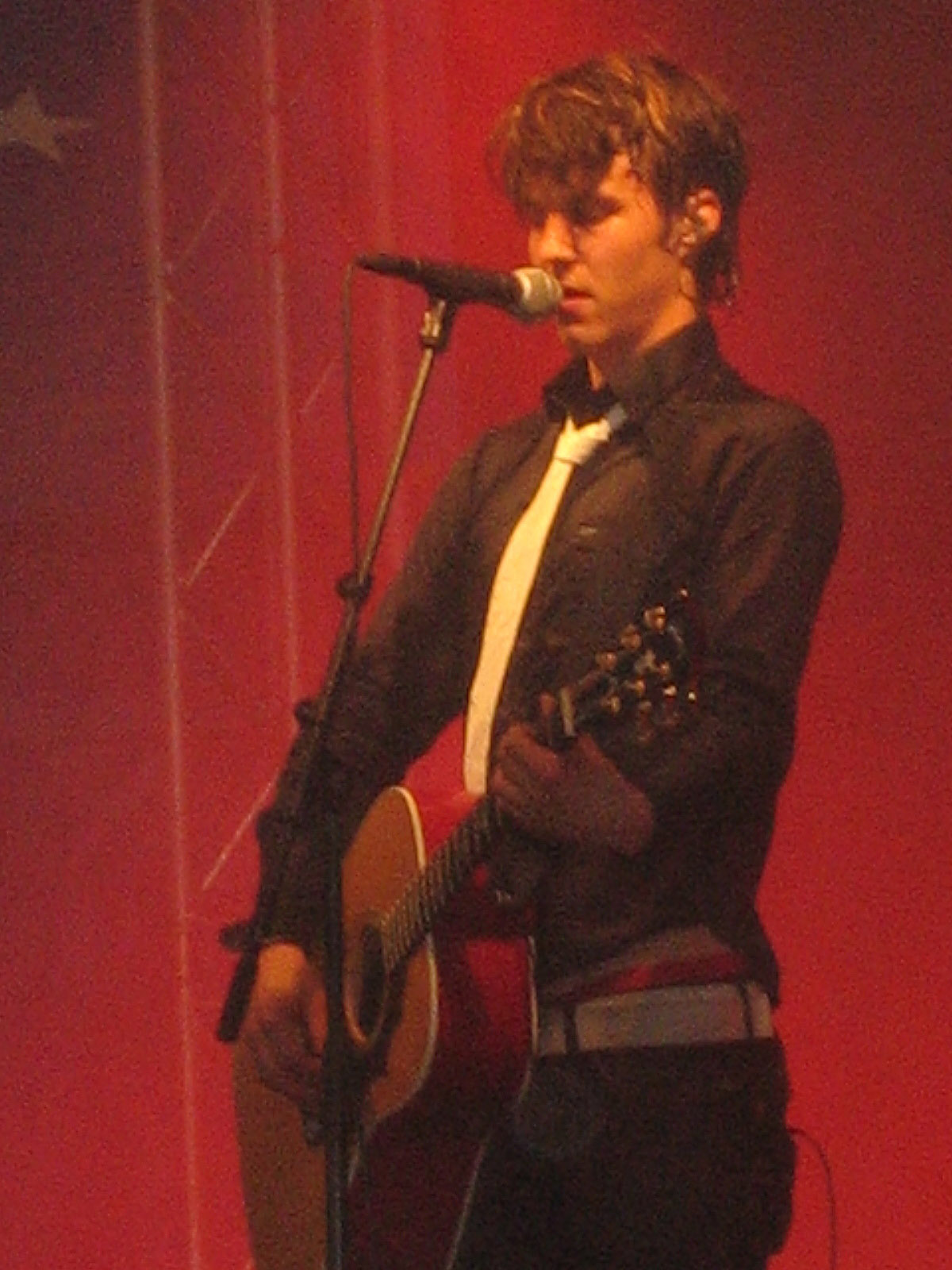 Olavi Uusivirta at Provinssirock 2006